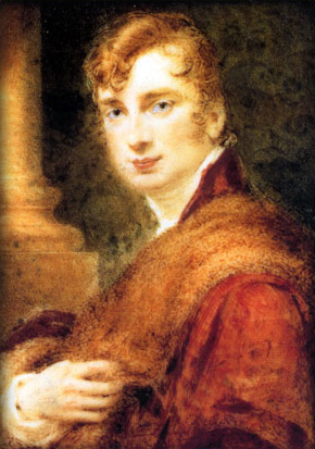 Orkney William Bankes